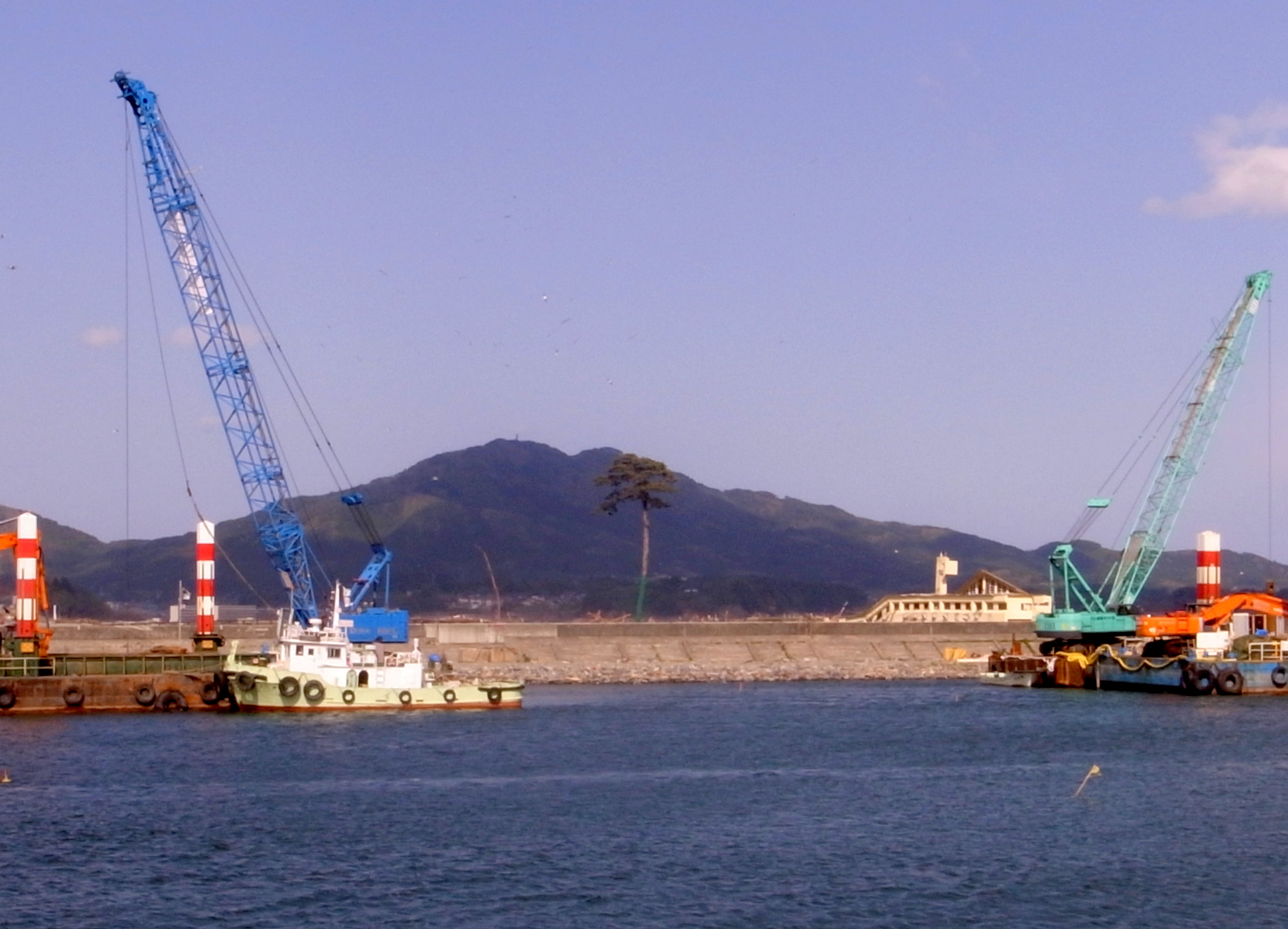 "Miracle Pine Tree", thirty meters in height, the sole survivor of about 70,000 pine trees in Takata-Matsubara, Rikuzentakata, Iwate, after the tsunami caused by the 2011 Eastern Japan Great Earthquakecf.